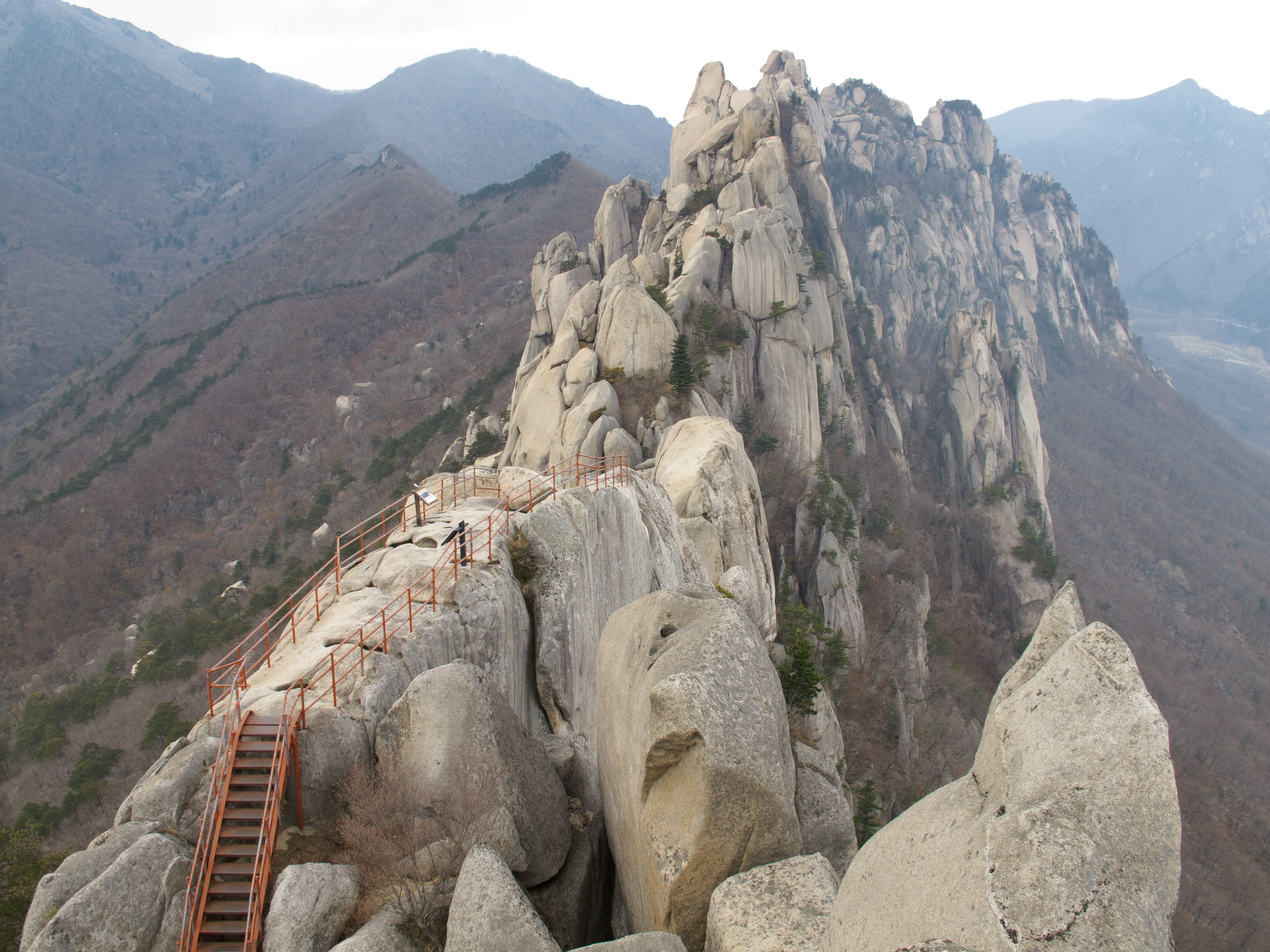 Ulsanbawi is landscape in Seoraksan